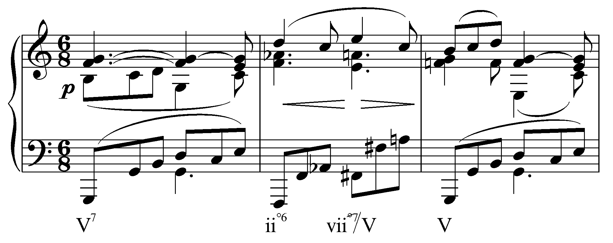 Secondary half-diminished leading-tone chord in Brahms Op. 119, no. 3, mm.49-51.